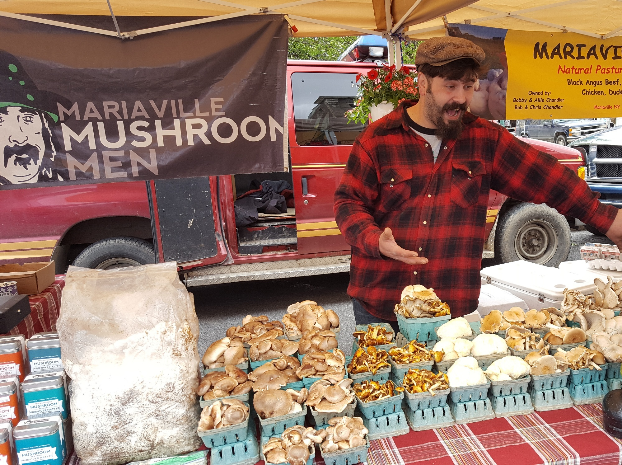 The Capital District Tourism Gnome at the Schenectady Greenmarket on Jay Street in downtown.